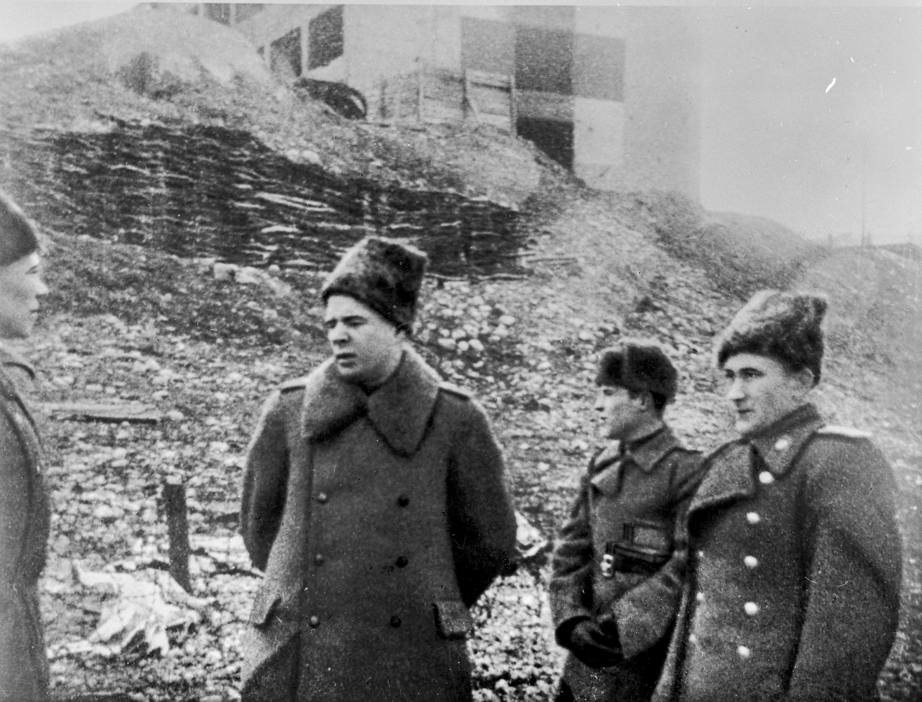 Photos from Flickr album "Evakueringen og frigjøringen av Finnmark" (The Evacuation and Liberation of Finnmark, 2015) by Riksarkivet (National Archives of Norway). Towards the end of World War II, with Operation Nordlicht, the Germans used the scorched earth tactic in Finnmark and northern Troms to halt the Red Army. As a consequence of this, few houses survived the war, and a large part of the population was forcefully evacuated further south (Tromsø was crowded), but many people avoided evacuation by hiding in caves and mountain huts and waited until the Germans were gone, then inspected their burned homes. There were 11,000 houses, 4,700 cow sheds, 106 schools, 27 churches, and 21 hospitals burned. There were 22,000 communications lines destroyed, roads were blown up, boats destroyed, animals killed, and 1,000 children separated from their parents. However, after taking the town of Kirkenes on 25 October 1944 (as the first town in Norway), the Red Army did not attempt further offensives in Norway. The town was handed over to Norway as the war ended. When war was over, more than 70,000 people were left homeless in Finnmark. The government imposed a temporary ban on residents returning to Finnmark because of the danger of landmines. The ban lasted until the summer of 1945 when evacuees were told that they could finally return home.